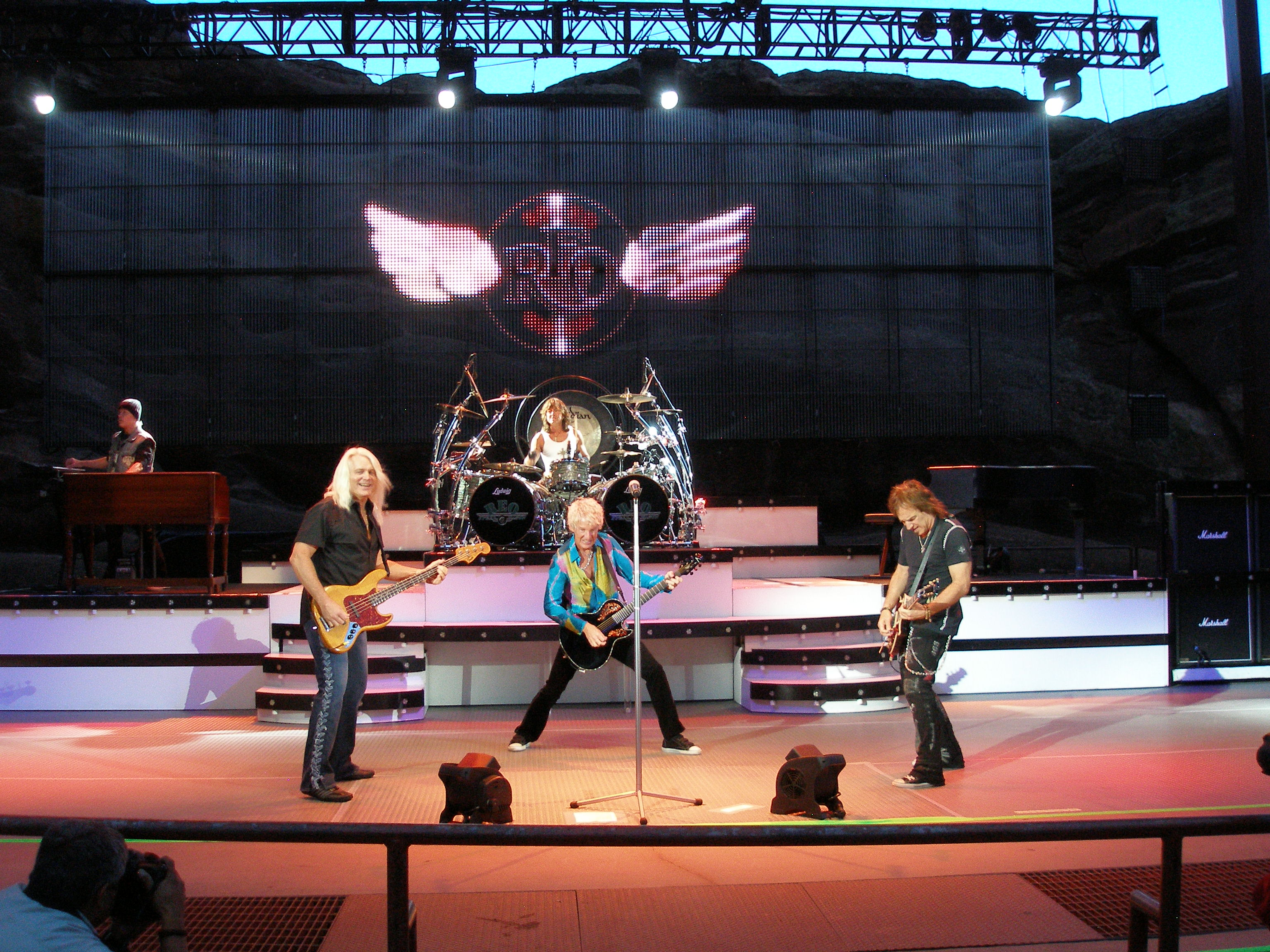 REO Speedwagon during the 2010 Love on the Run tour, at Red Rocks Amphitheater in Morrison, Colorado on July 21, 2010. From left to right Neal Doughty, Bruce Hall, Bryan Hitt, Kevin Cronin and Dave Amato.